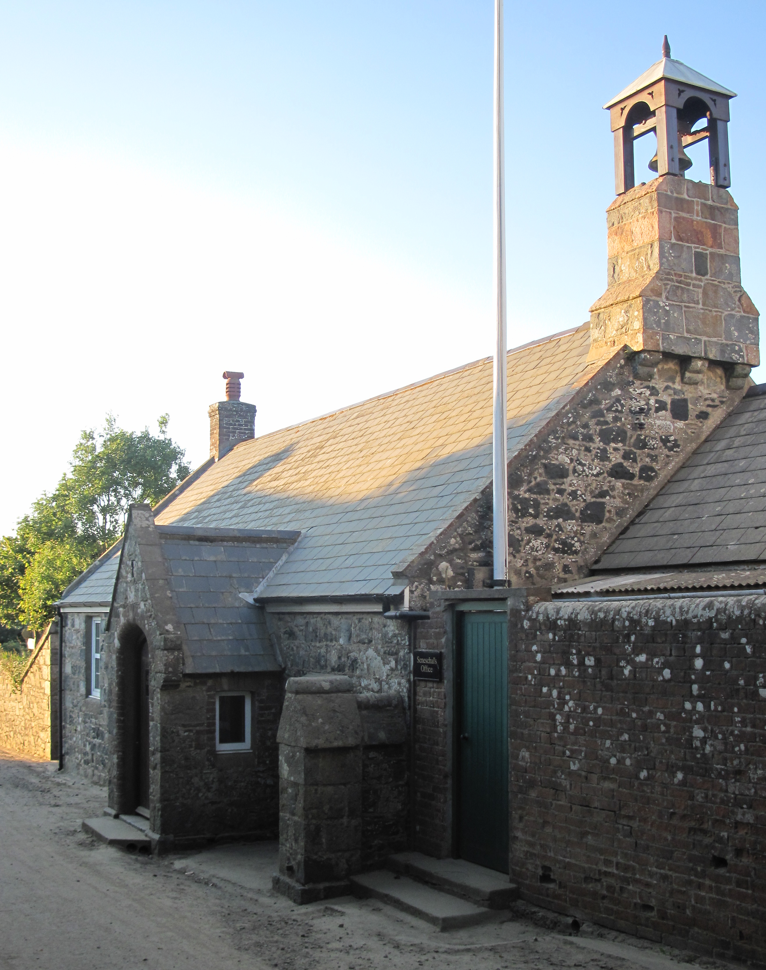 Visit to Sark 2011